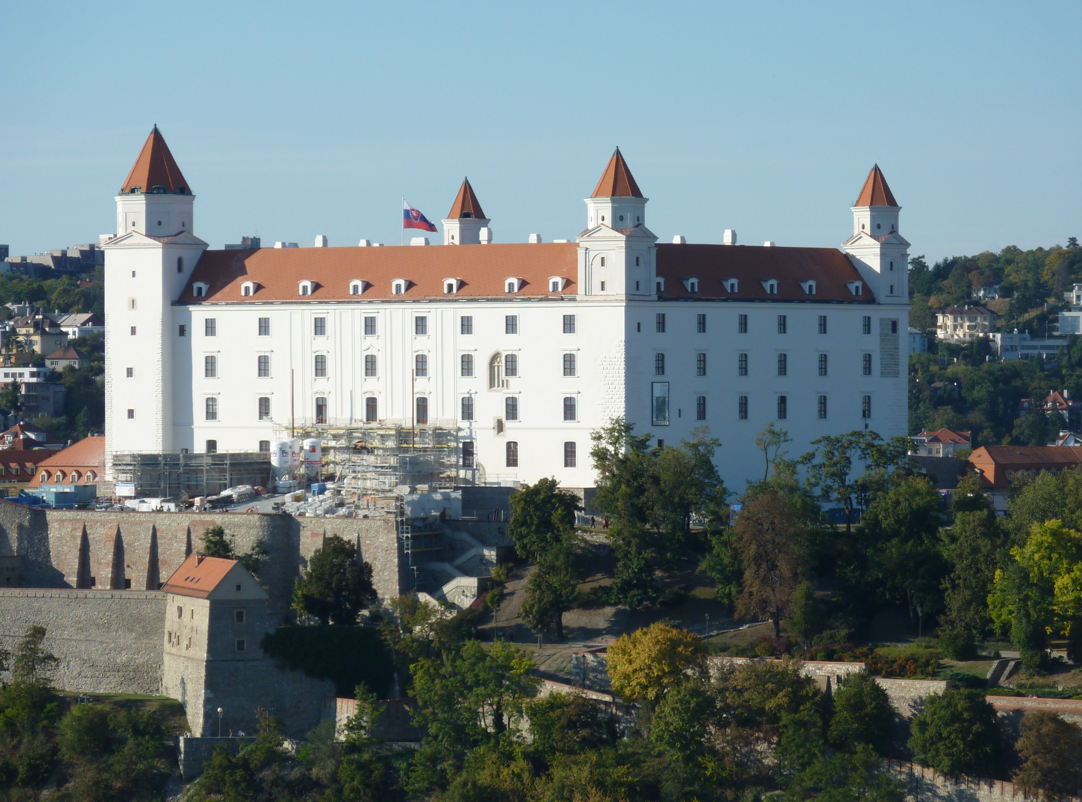 Bratislavský hrad (Bratislava Castle) from the South East.